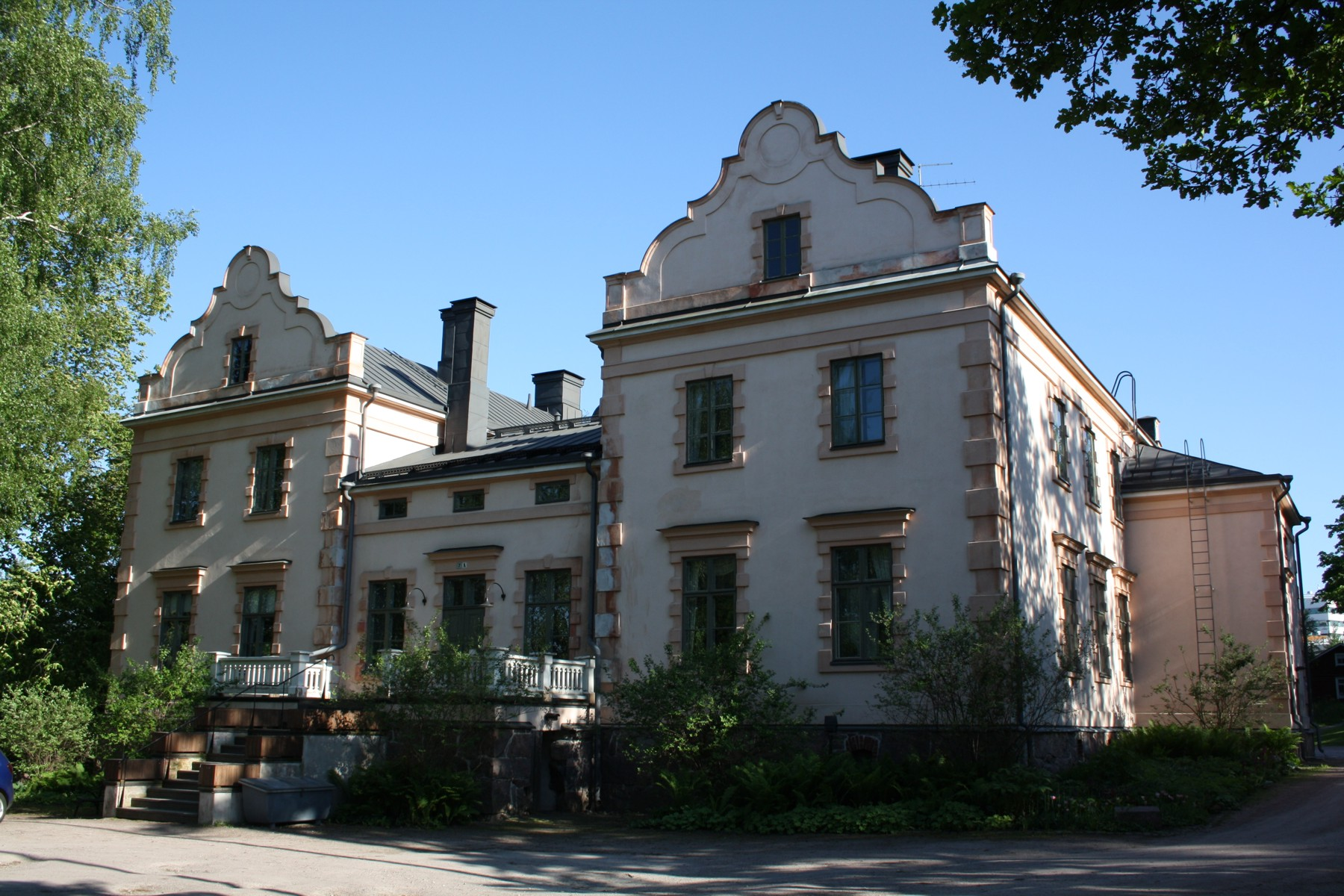 Alberga manor house, Espoo, Finland.